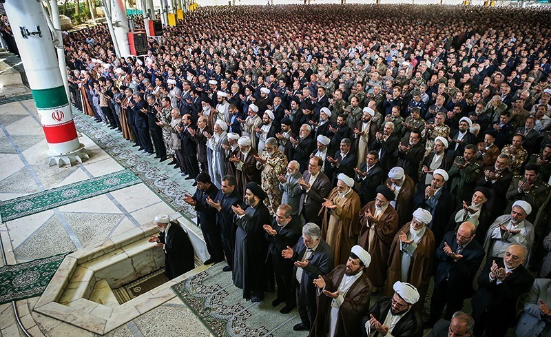 Friday prayer in Tehran, Iran.